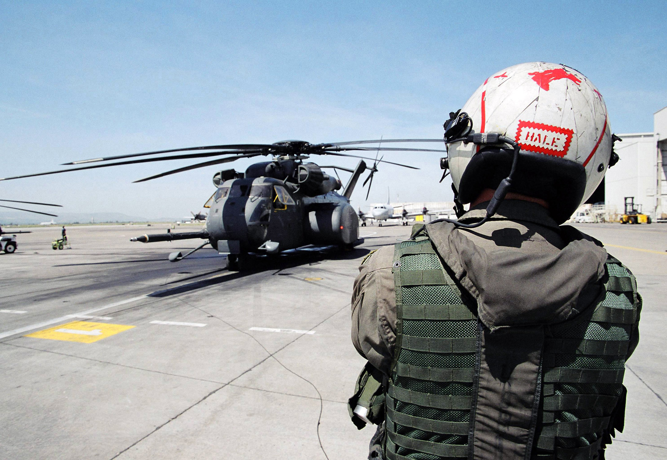 Naval Air Station Sigonella, Sicily (May 6, 2003) -- Aviation Structural Mechanic 1st Class James Hale, assigned to the "Black Stallions" of Helicopter Combat Support Squadron Four (HC-4), prepares for engine start on an MH-53E Sea Dragon helicopter at Naval Air Station (NAS) Sigonella. The aircrew is conducting Crew Resource Management training. NAS Sigonella provides logistical support for all Sixth Fleet and NATO forces in the Mediterranean Sea. U.S. Navy photo by Photographer's Mate 1st Class Matthew J. Thomas. (RELEASED)